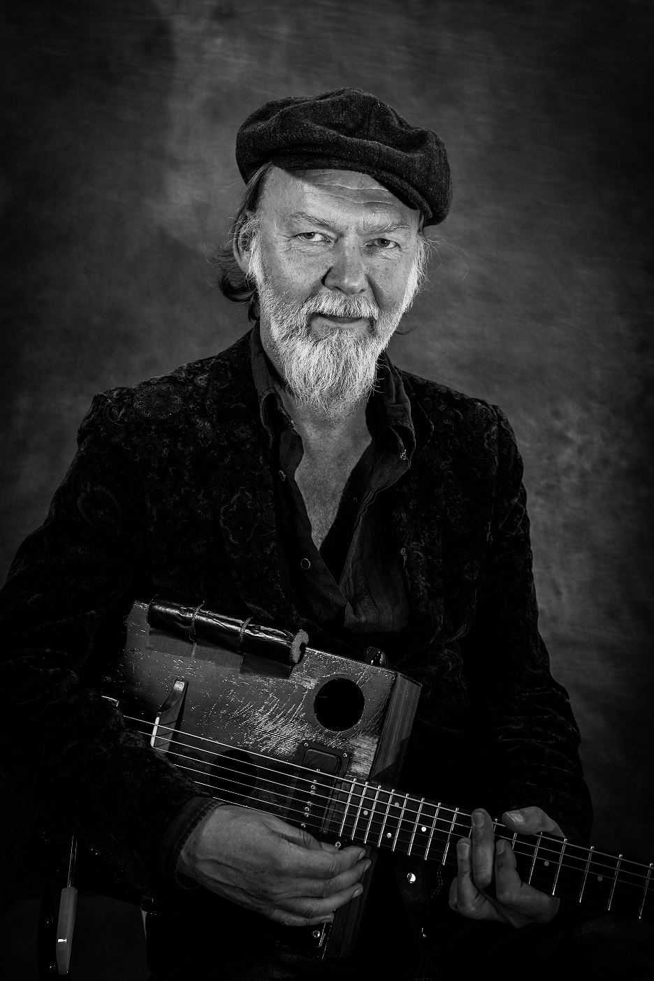 Tuomari Nurmio aka Judge Bone